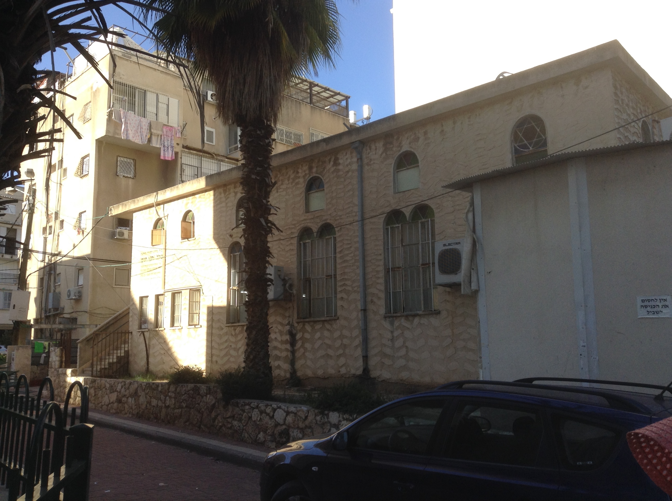 Synagogue in Bnei Brak